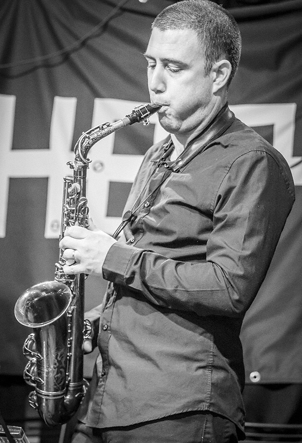 Guy Sion performs "Paris Jazz Nights" at the stage of Uhørt. The concert took place on 19. October 2016 in Oslo. Lineup: Henriette Vaagsnes (vocal) Guy Sion (saxophone) Magne Føreland (guitar) Gildas Le Pape (guitar)